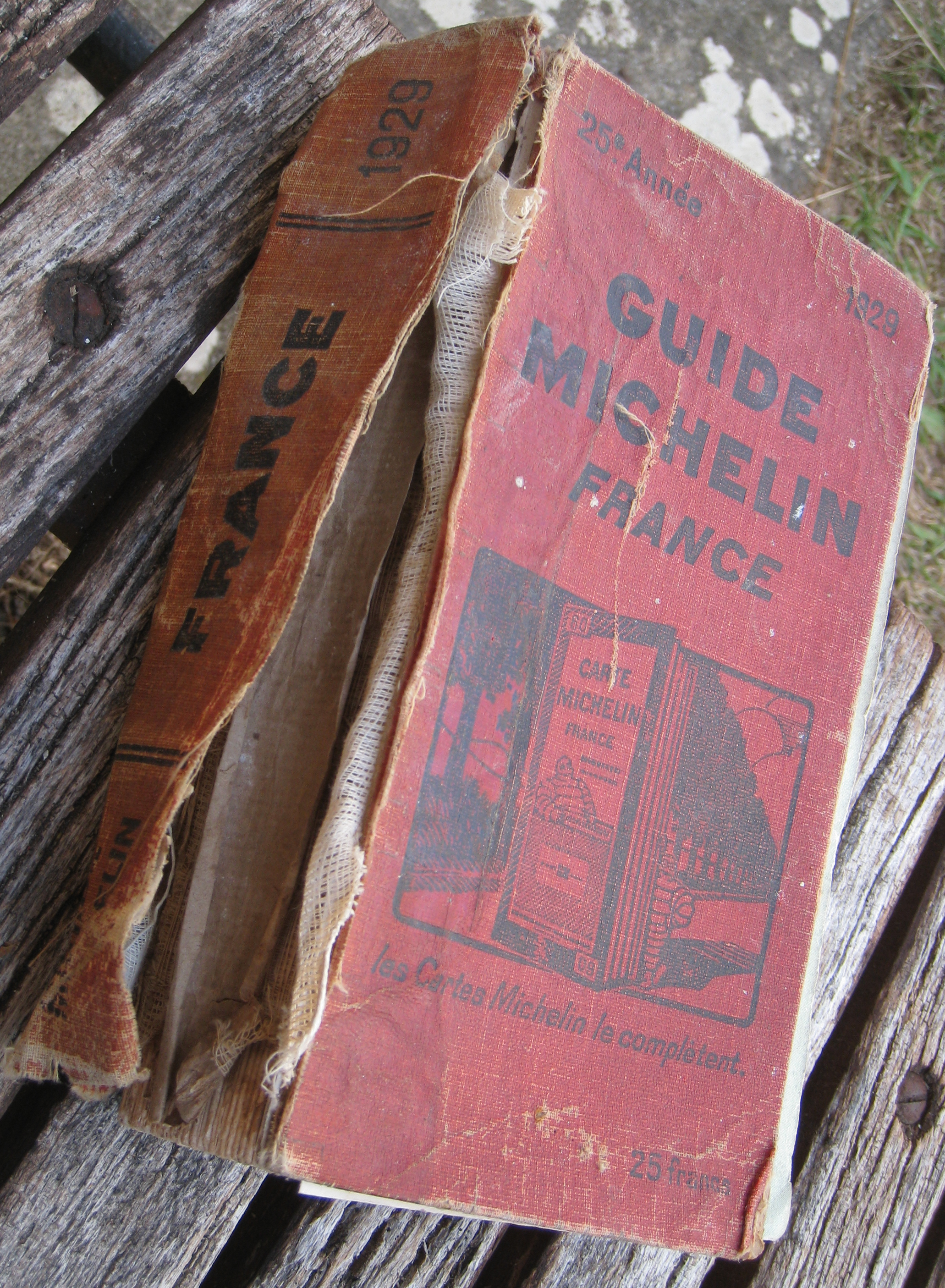 Front cover of a 1929 Guide Michelin book, angle shot, the binding is visible. the book is in poor state.